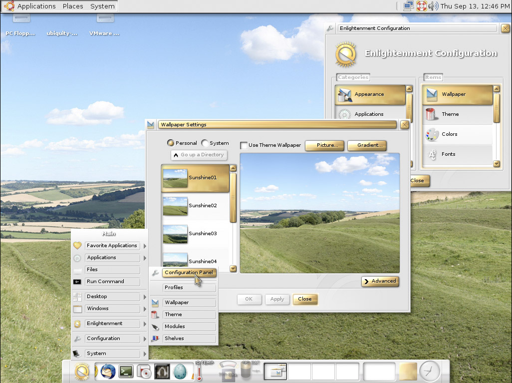 Geubuntu Prima Luna with the default Sunshine theme